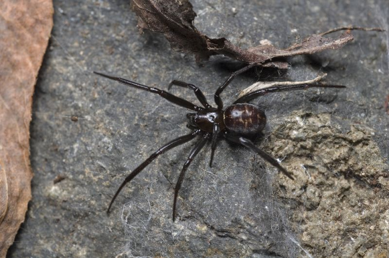 Female False Katipo spider Steatoda capensis